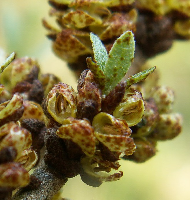 Flowers of Hippophae rhamnoides